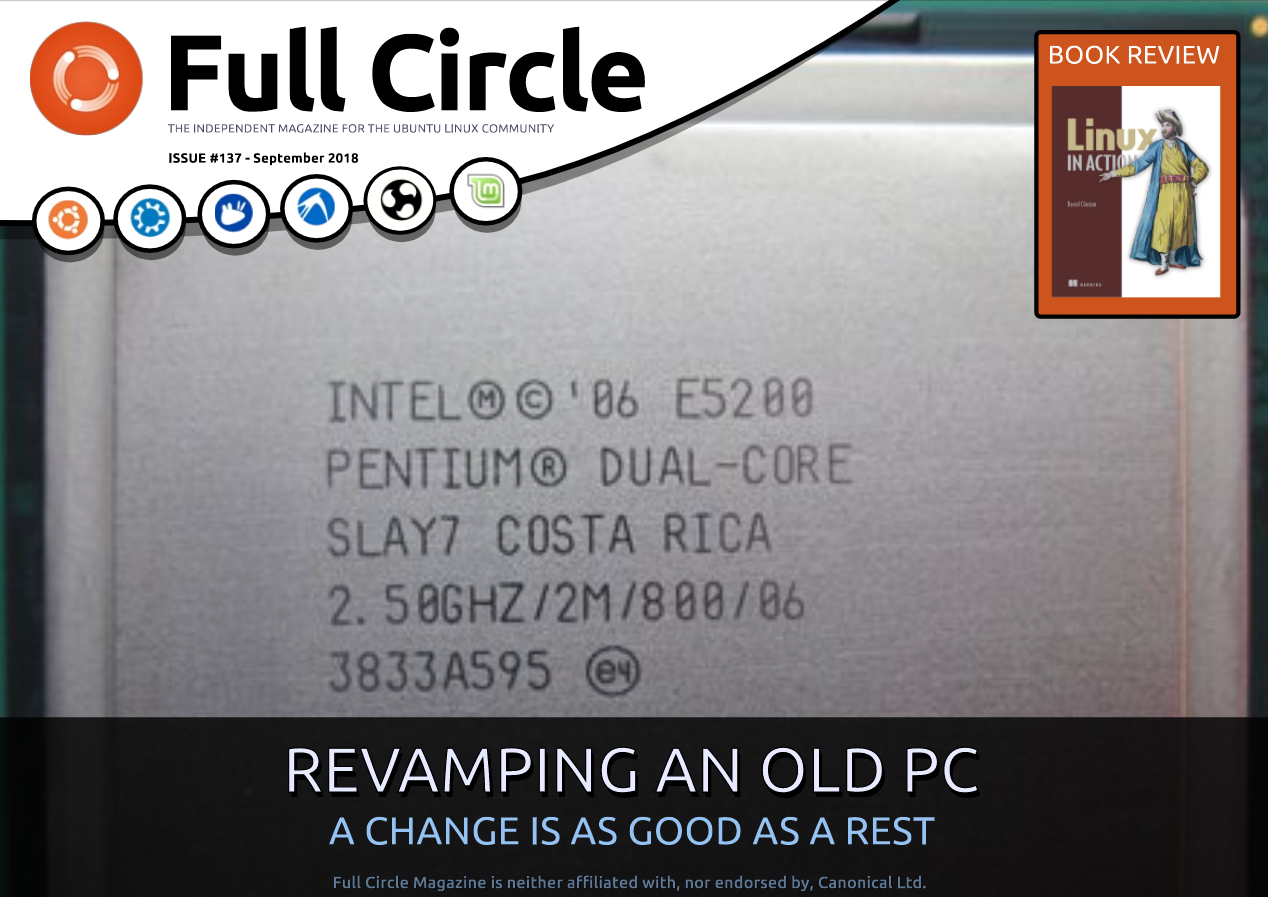 Full Circle Magazine, issue 137